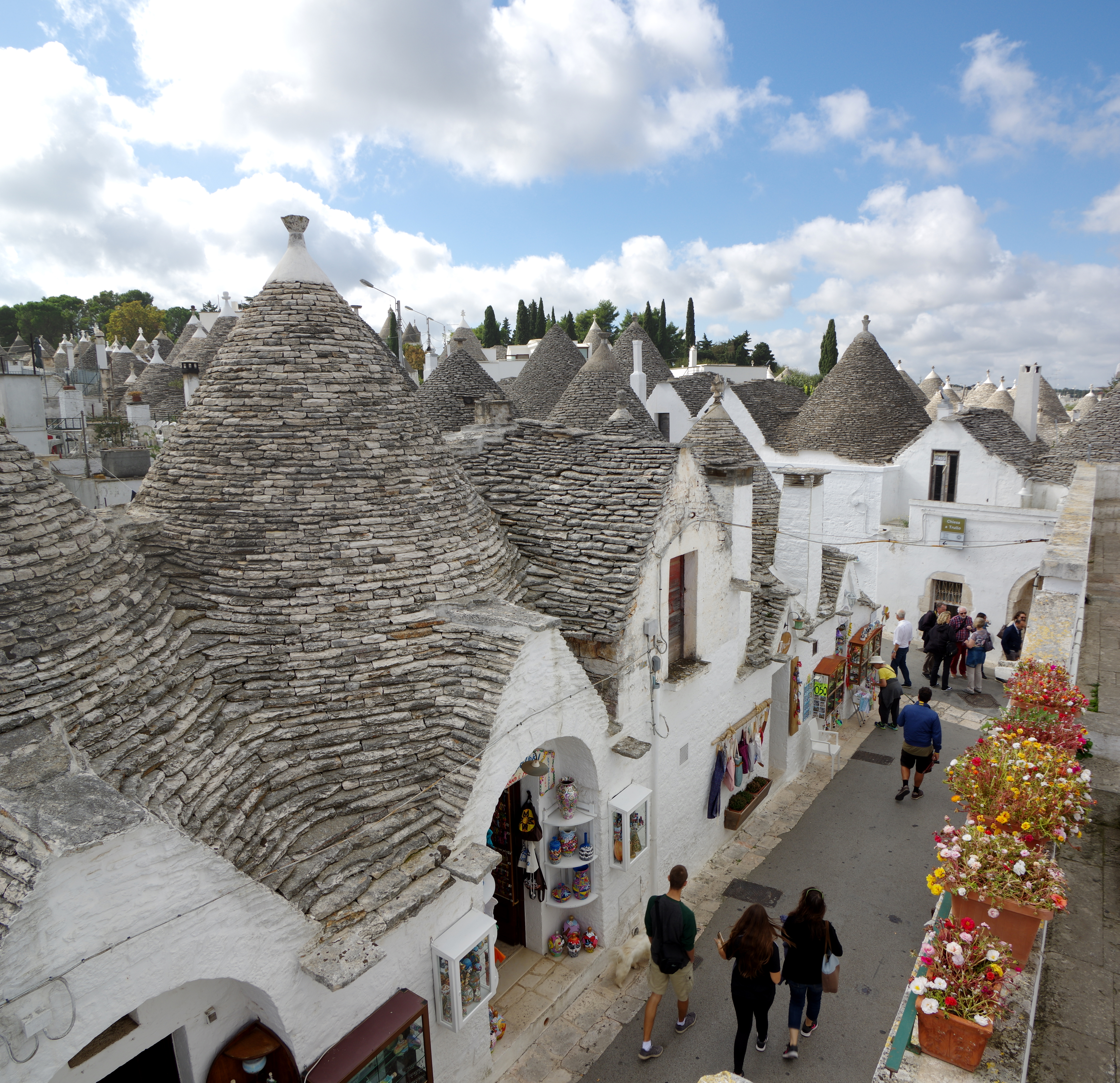 Italy, Alberobello, Trullo (Trulli)